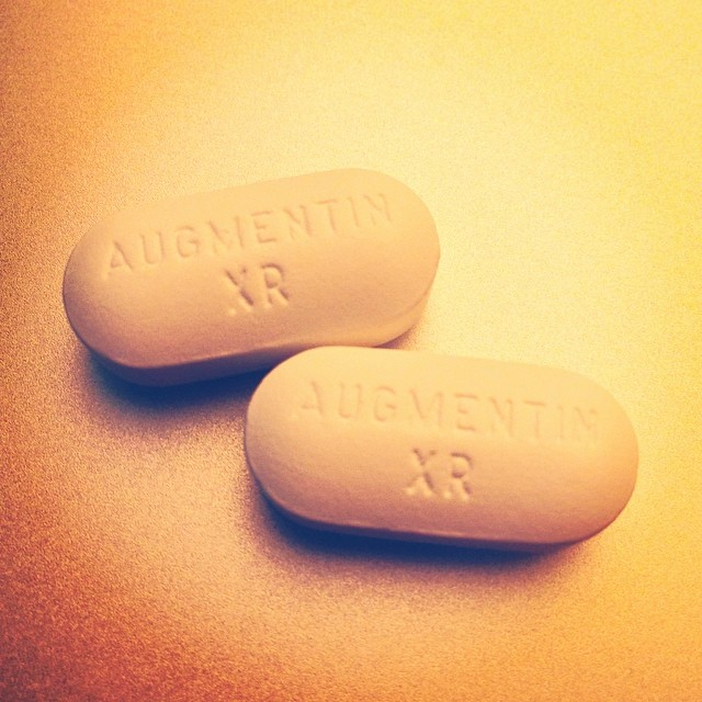 Augmentin XR antibiotic prescription 2014-03-15 1394865235